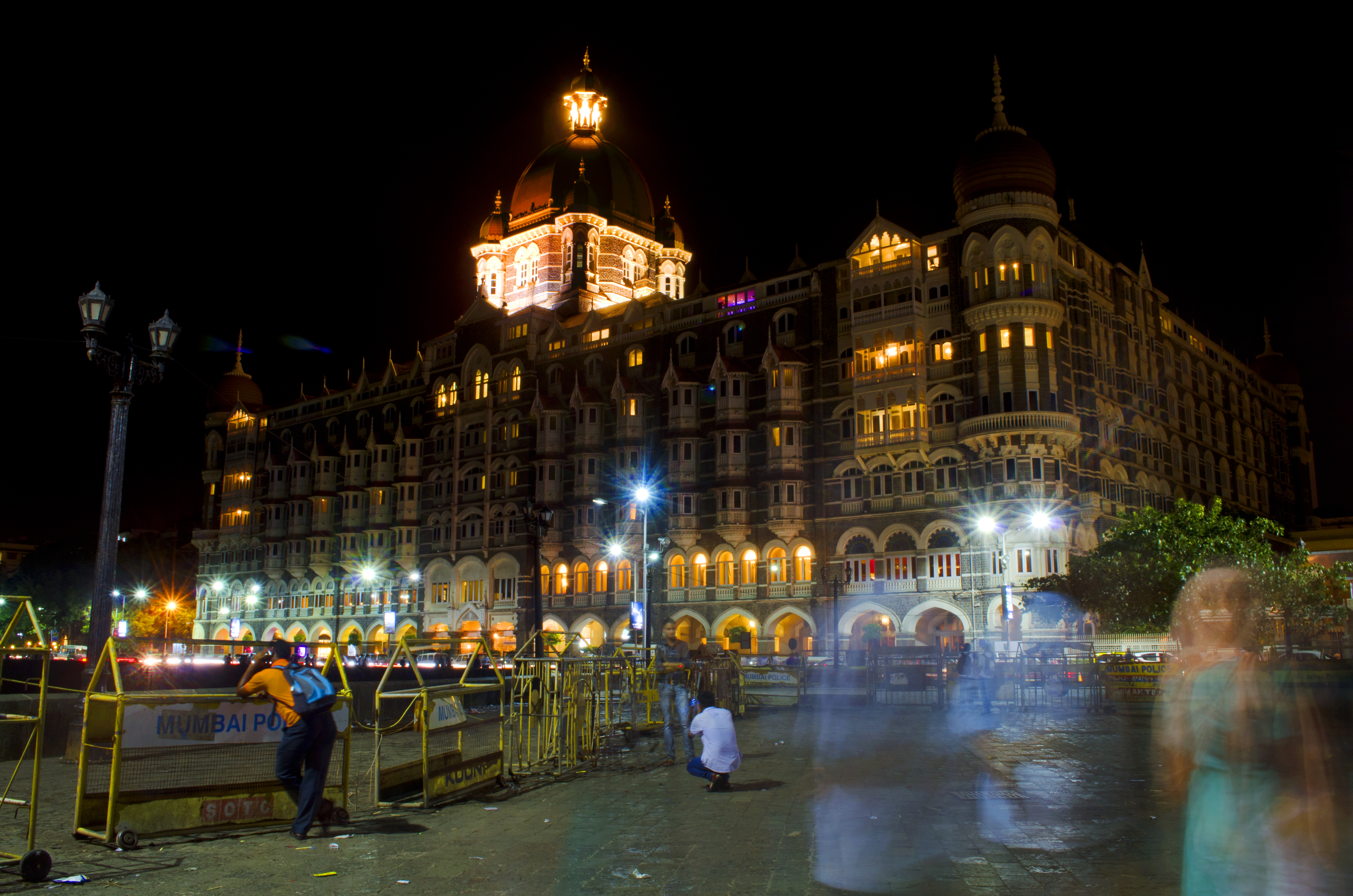 One of the major targets of the 26/11 Mumbai terrorist attacks, the rebuilt Taj Mahal Hotel is as magnificent as it ever was.